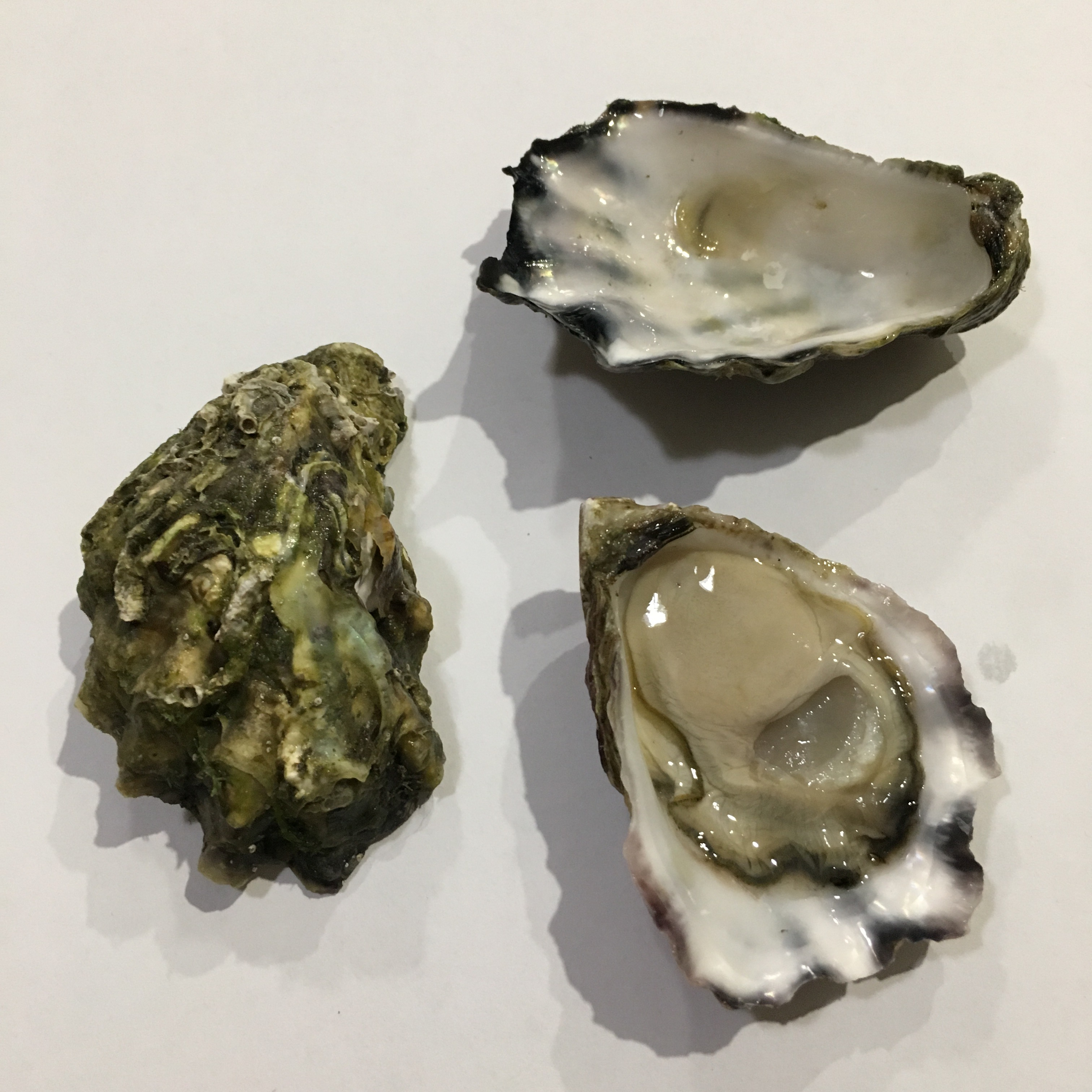 Photograph of commercially-sold Sydney rock oyster (Saccostrea glomerata) on a half shell (bottom valve) with two views of empty shells (also lower valves, inside and outside). Image shows three shells, top-down view on a matte white background. Inside of shell is white, with a wavy black margin. The external shell surface is encrusted with algae, barnacle shell remnants, and marine worm tubules.